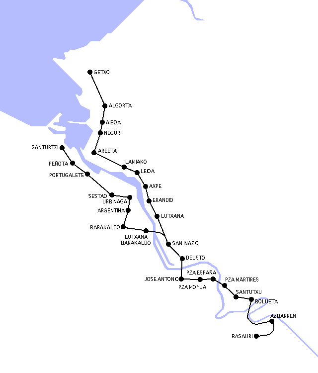 Map of a project made for Bilbao Metro in 1976.